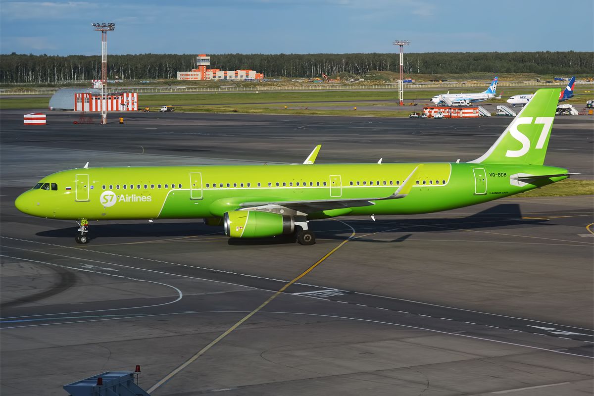 S7 Airlines, VQ-BDB, Airbus A321-231